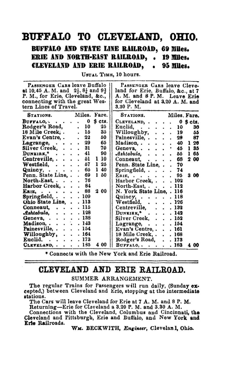 A Cleveland & Erie Railroad timetable from 1853. The railroad was the corporate name used by the Cleveland, Painesville & Ashtabula Railroad for the two lines (one between Cleveland, Ohio, and the Ohio-Pennsylvania border, the other between the Ohio-Pennsylvania border and Erie, Pennsylvania) it operated from 1852 to 1869.